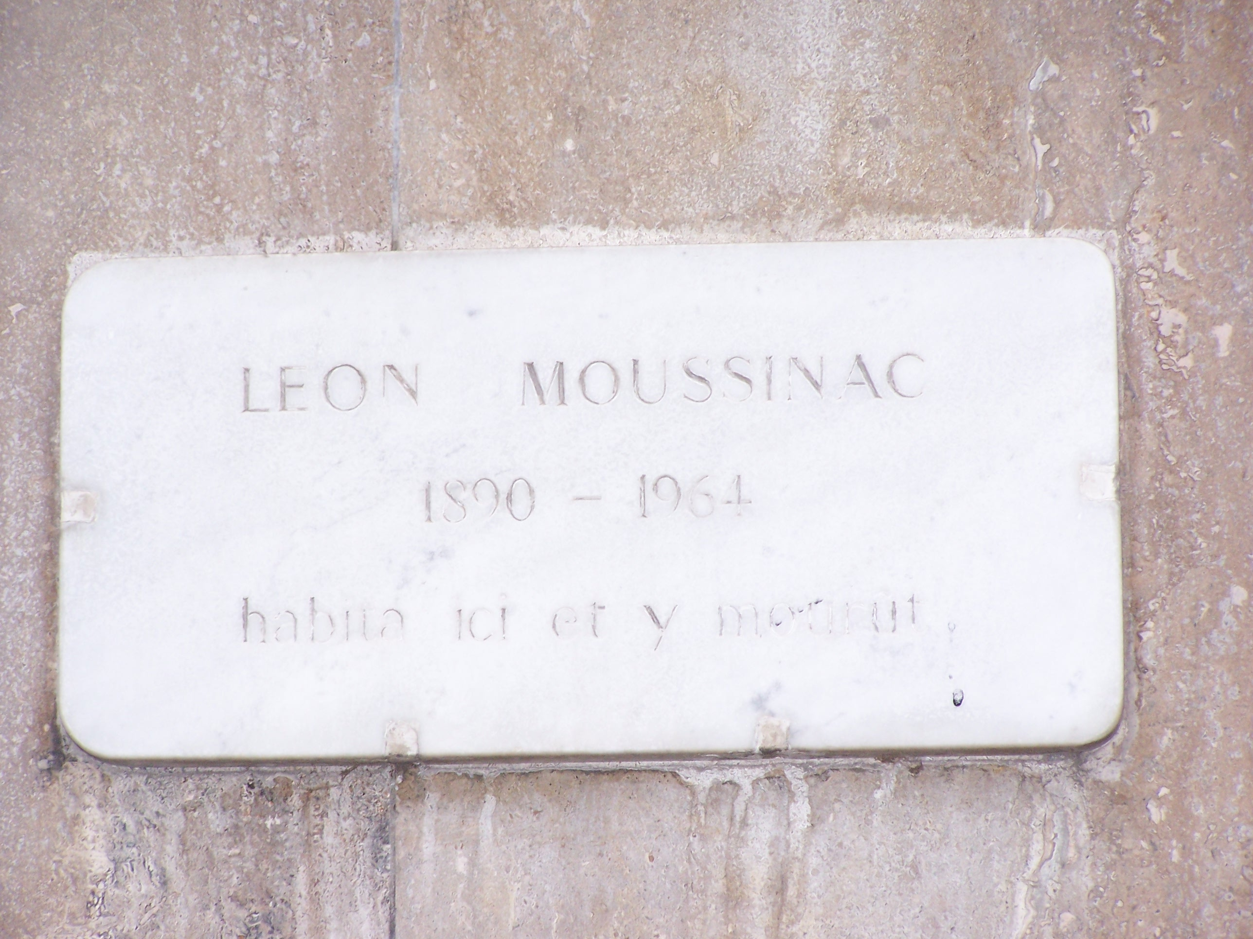 Plaque commémorative sur l'immeuble, 1 rue Leclerc à Paris, où vécut Léon Moussinac.